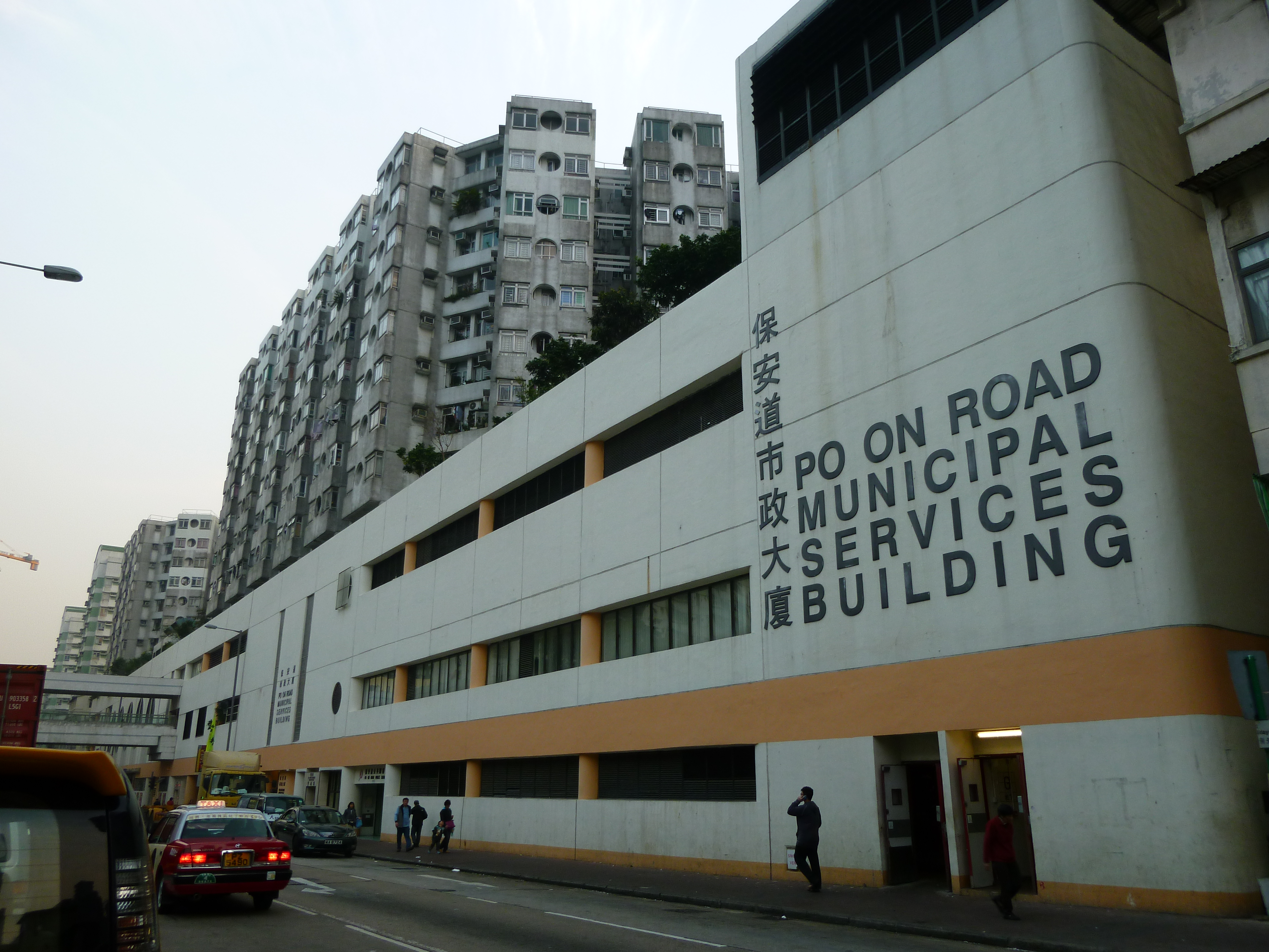 Po On Road Municipal Services Building